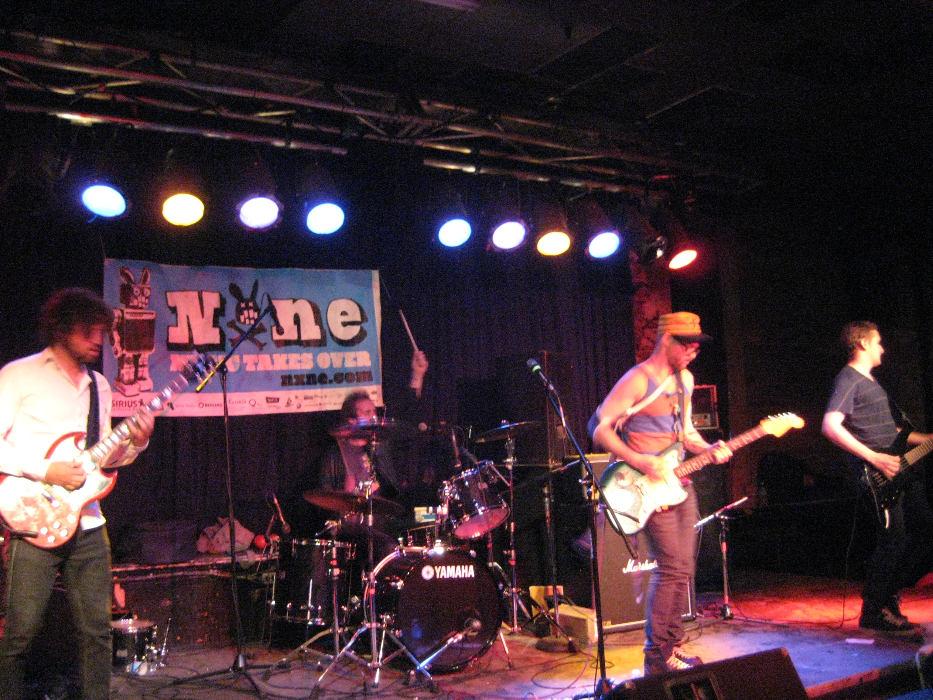 Canadian band The Dudes, performing at the NXNE music festival in Toronto